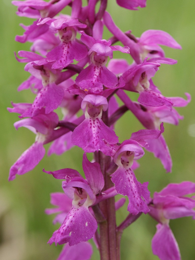 Orchis mascula